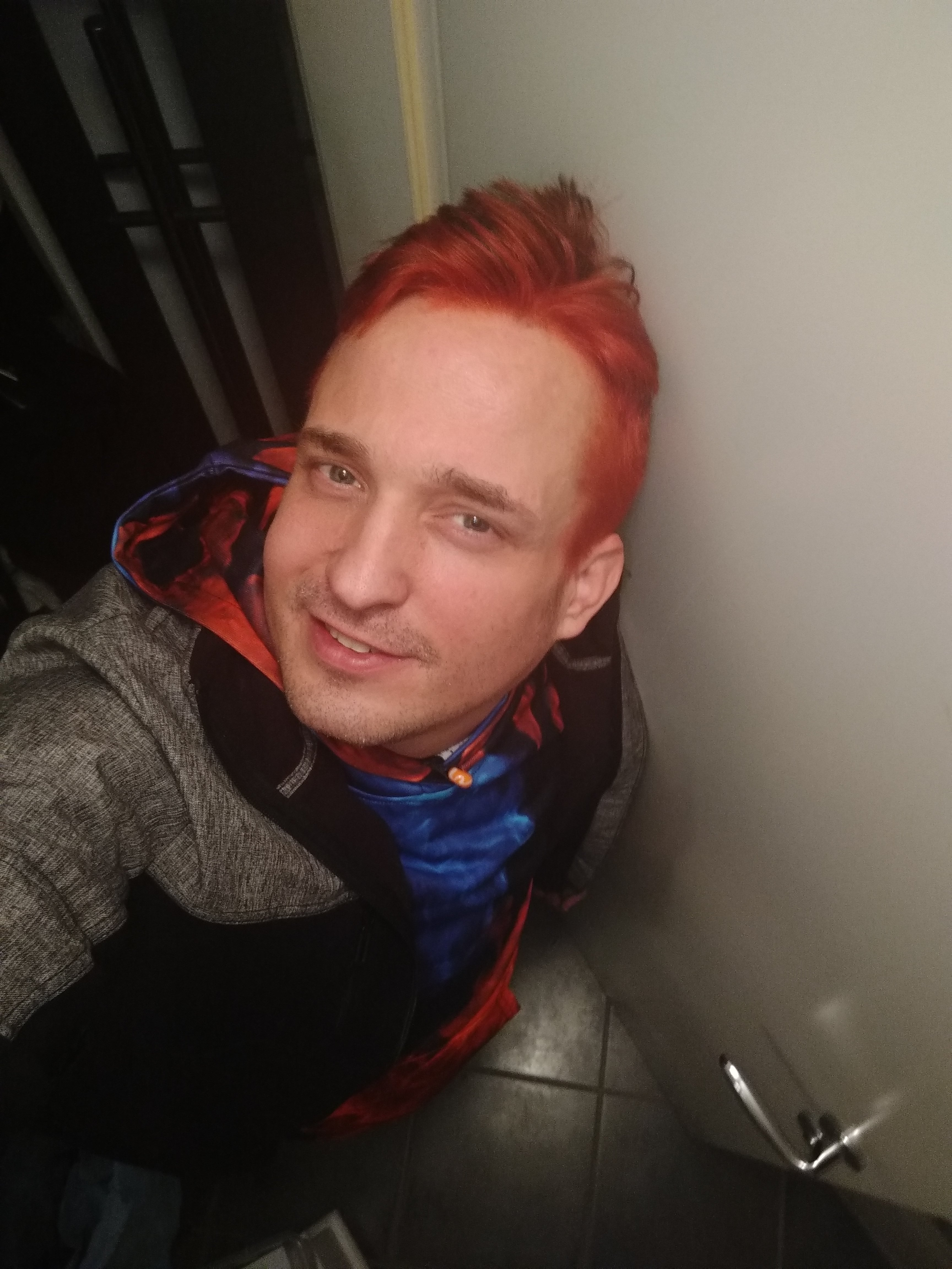 Jean-Marc Lorber, 2019